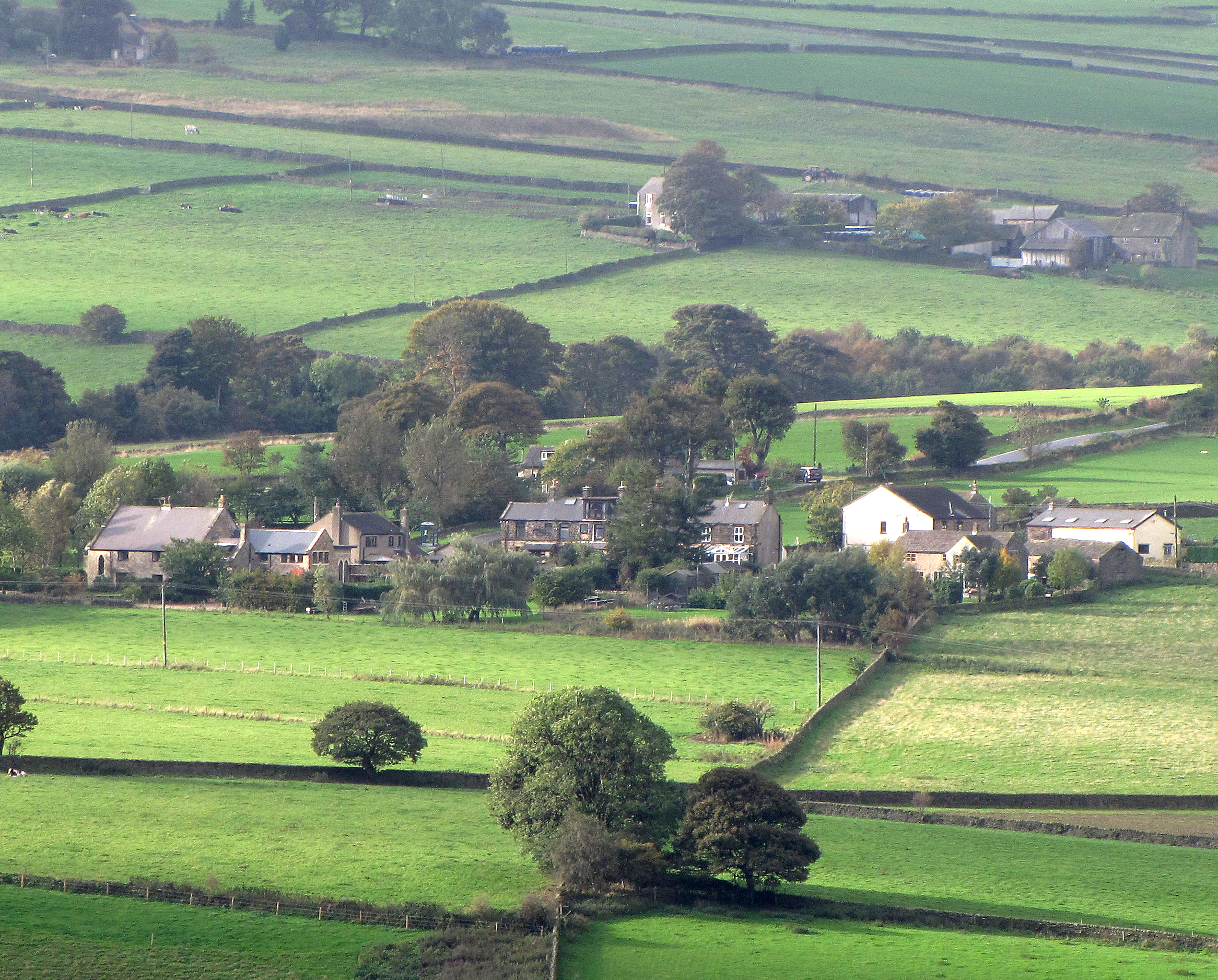 The hamlet of Storrs, with the City of Sheffield, England, seen across the Loxley valley from Wadsley Common, two km to the NE.